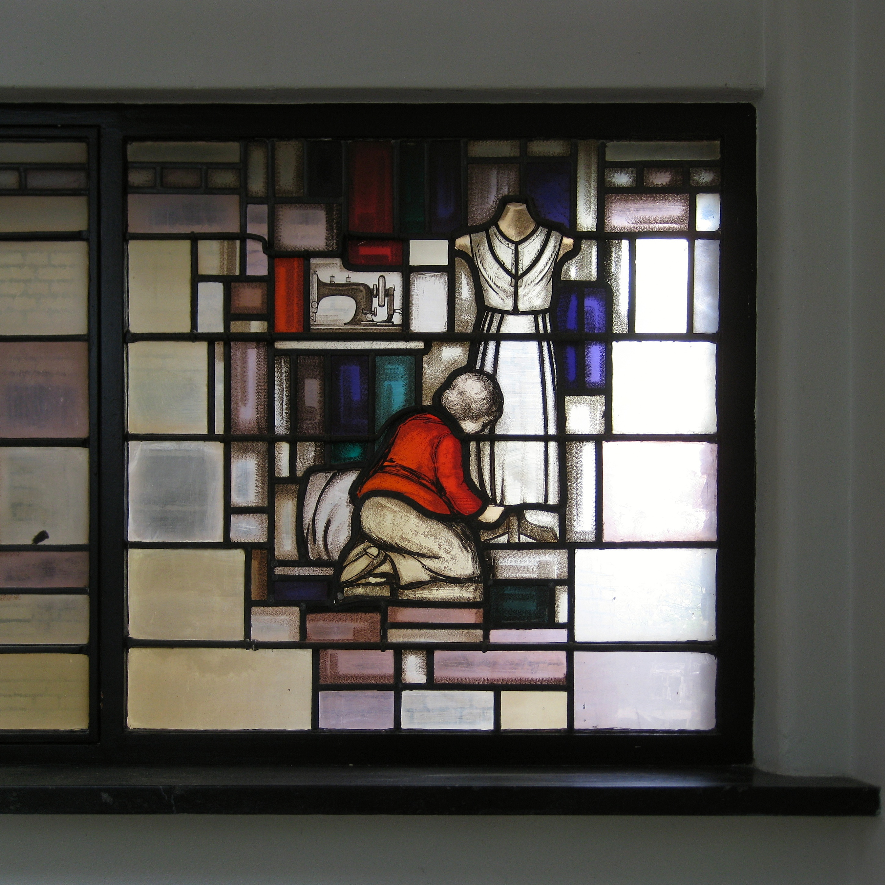 Stained glass window in a former school in the Dutch city of Groningen.